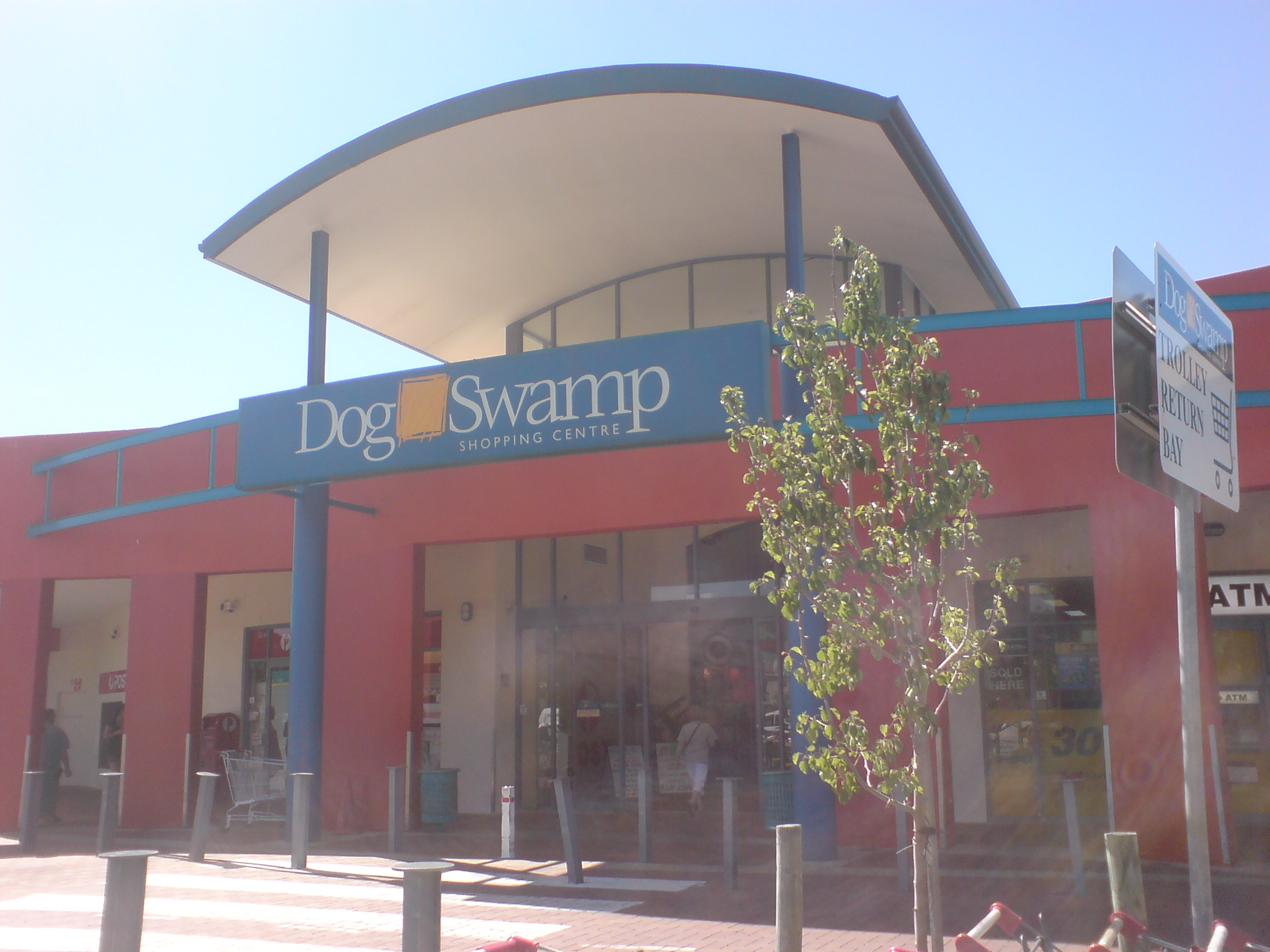 The entrance of Dog Swamp Shopping Centre